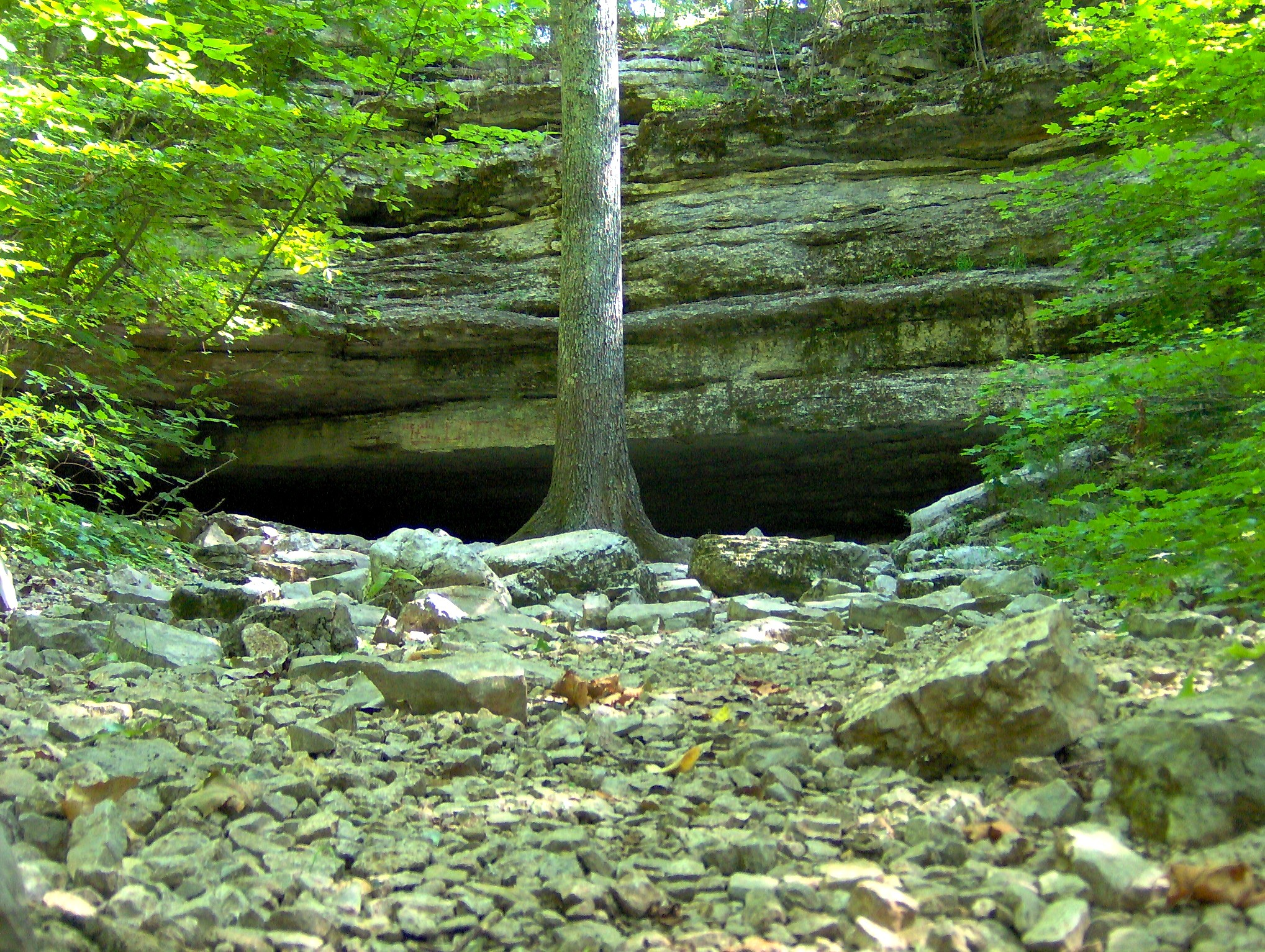 Jackson Cave at Cedars of Lebanon State Park in Wilson County, Tennessee, in the southeastern United States. This cave is located behind the Merritt Nature Center. The cave's short entrance widens to a 6x12ft (2x4m) corridor that leads to a large pool of water.